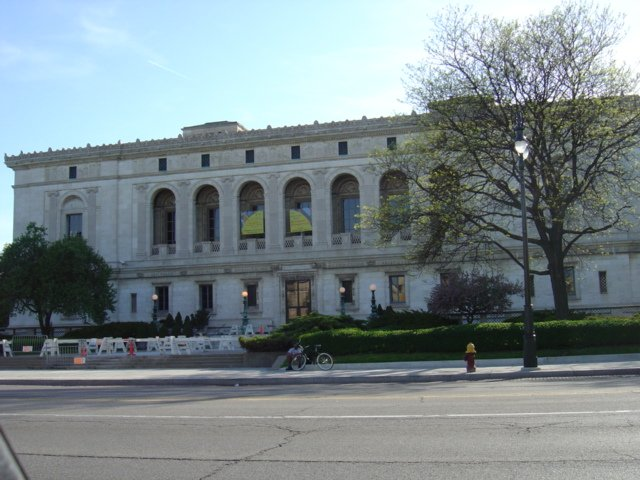 Detroit Public Library, Main Branch. Contributing property to the Cultural Center Historic District.